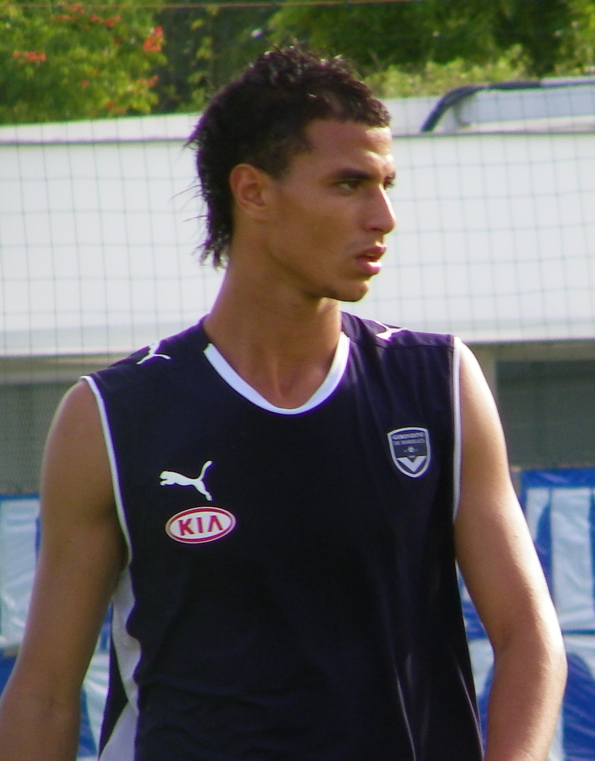 Marouane Chamakh